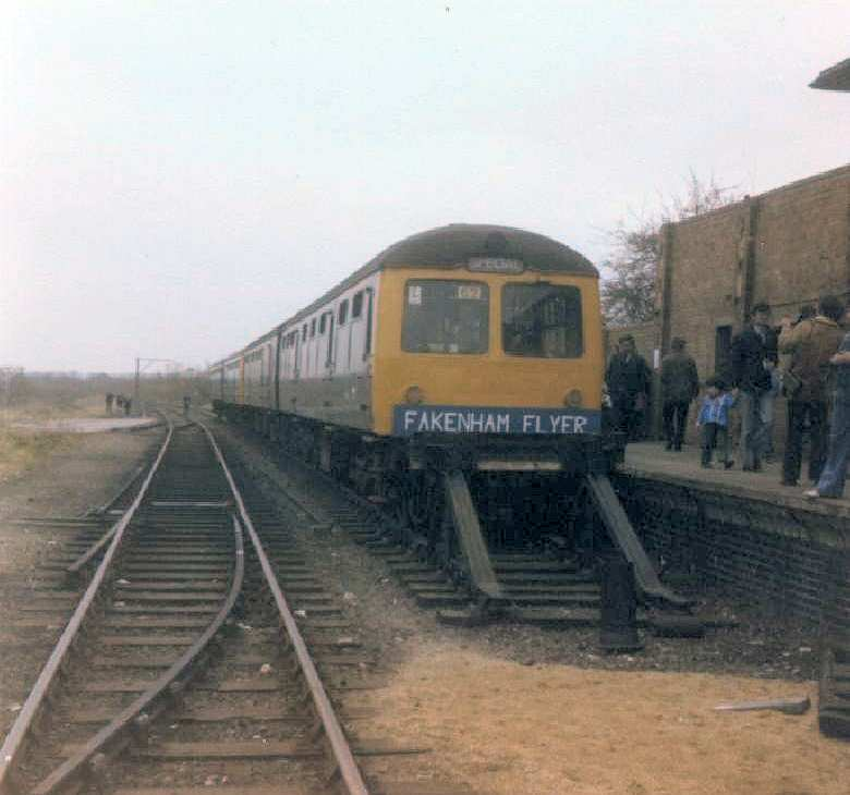 WyDFRAC charter service from Norwich at Fakenham